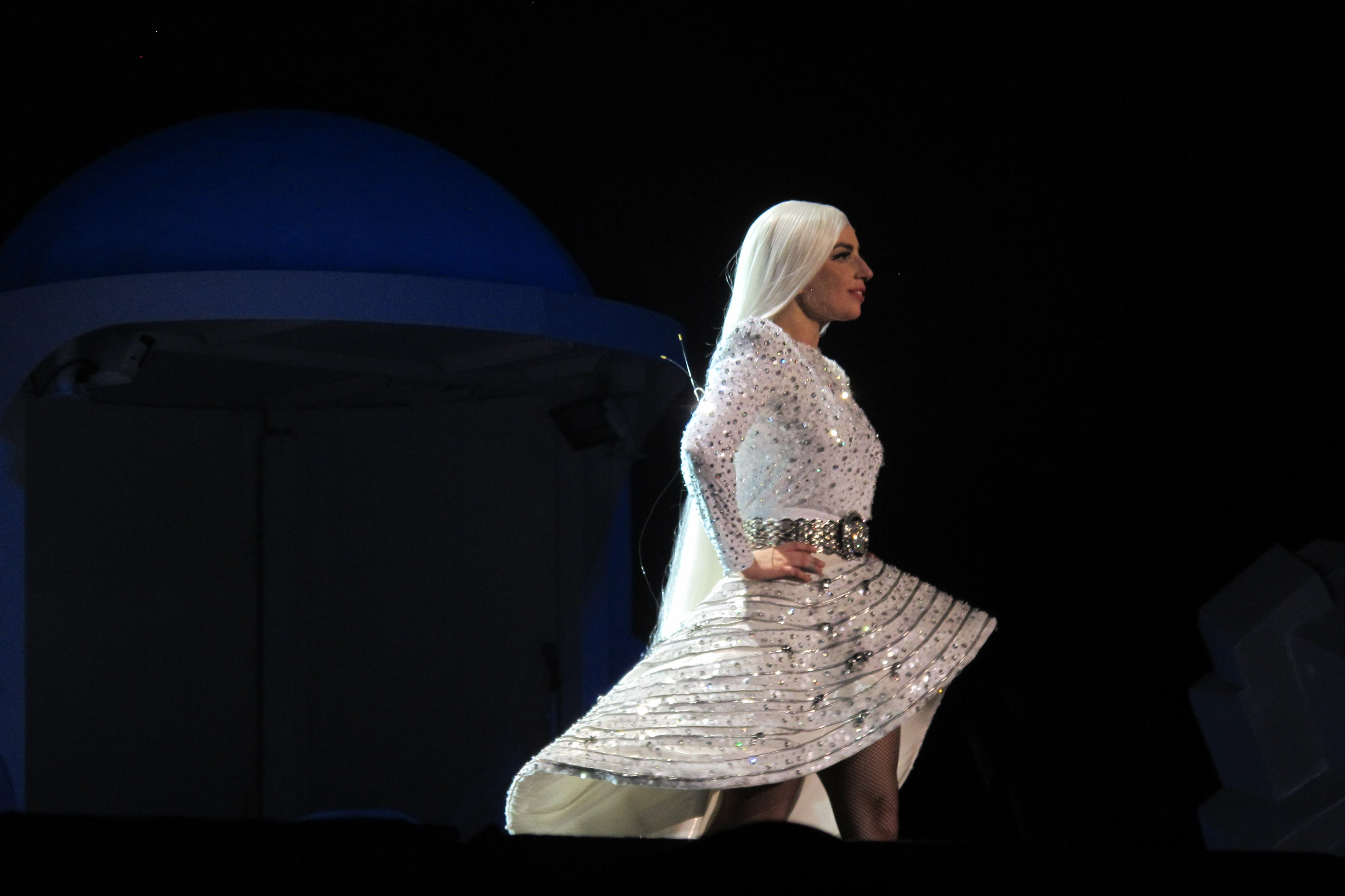 IMG_8325 Lady Gaga performing at ArtRave: The Artpop Ball of San Diego